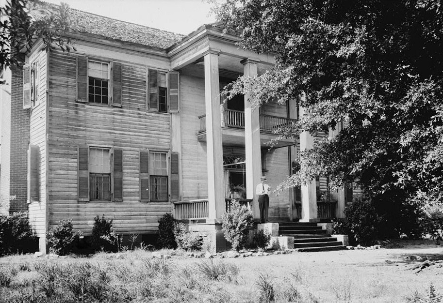 Thornhill, State Road 21, Talladega vicinity (Talladega County, Alabama) cropped This file comes from the Historic American Buildings Survey (HABS), Historic American Engineering Record (HAER) or Historic American Landscapes Survey (HALS). These are programs of the National Park Service established for the purpose of documenting historic places. Records consist of measured drawings, archival photographs, and written reports. When reusing please credit: Library of Congress, Prints & Photographs Division, ALA,61-TALA.V,1-1 This tag does not indicate the copyright status of the attached work. A normal copyright tag is still required. See Commons:Licensing for more information. English | +/− This work is in the public domain in the United States because it is a work prepared by an officer or employee of the United States Government as part of that person’s official duties under the terms of Title 17, Chapter 1, Section 105 of the US Code. See Copyright. Note: This only applies to original works of the Federal Government and not to the work of any individual U.S. state, territory, commonwealth, county, municipality, or any other subdivision. This template also does not apply to postage stamp designs published by the United States Postal Service since 1978. (See 206.02(b) of Compendium II: Copyright Office Practices). It also does not apply to certain US coins; see The US Mint Terms of Use. This file has been identified as being free of known restrictions under copyright law, including all related and neighboring rights.